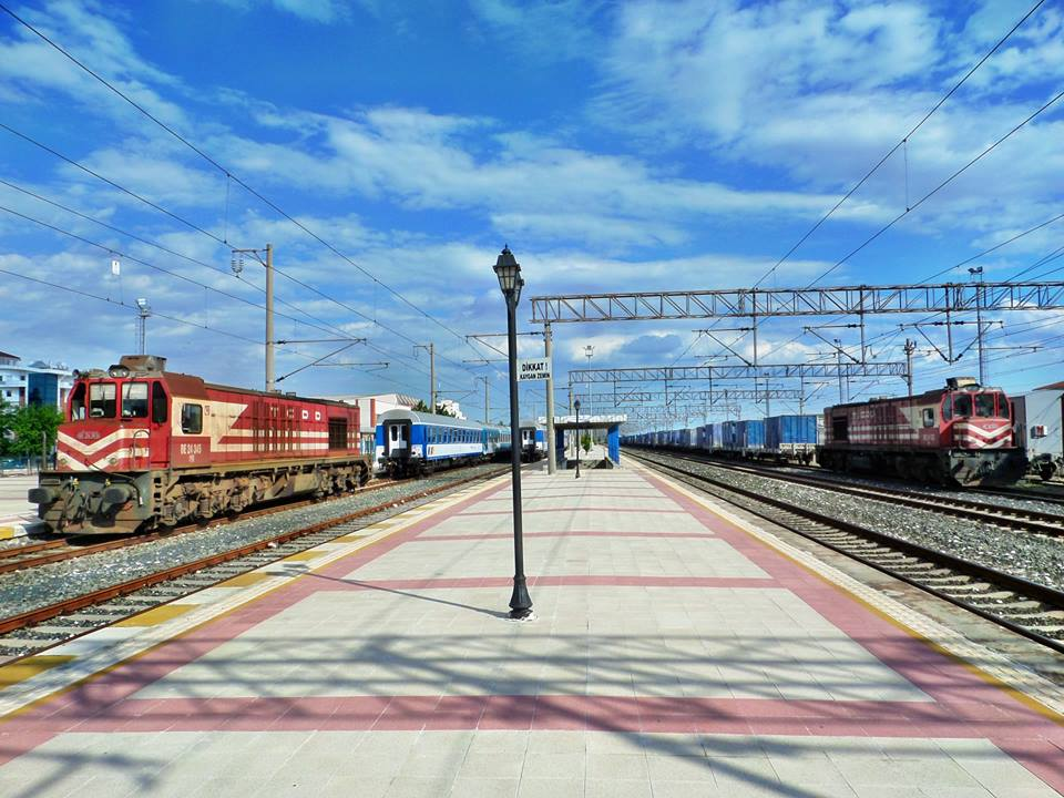 Edirne railway station.